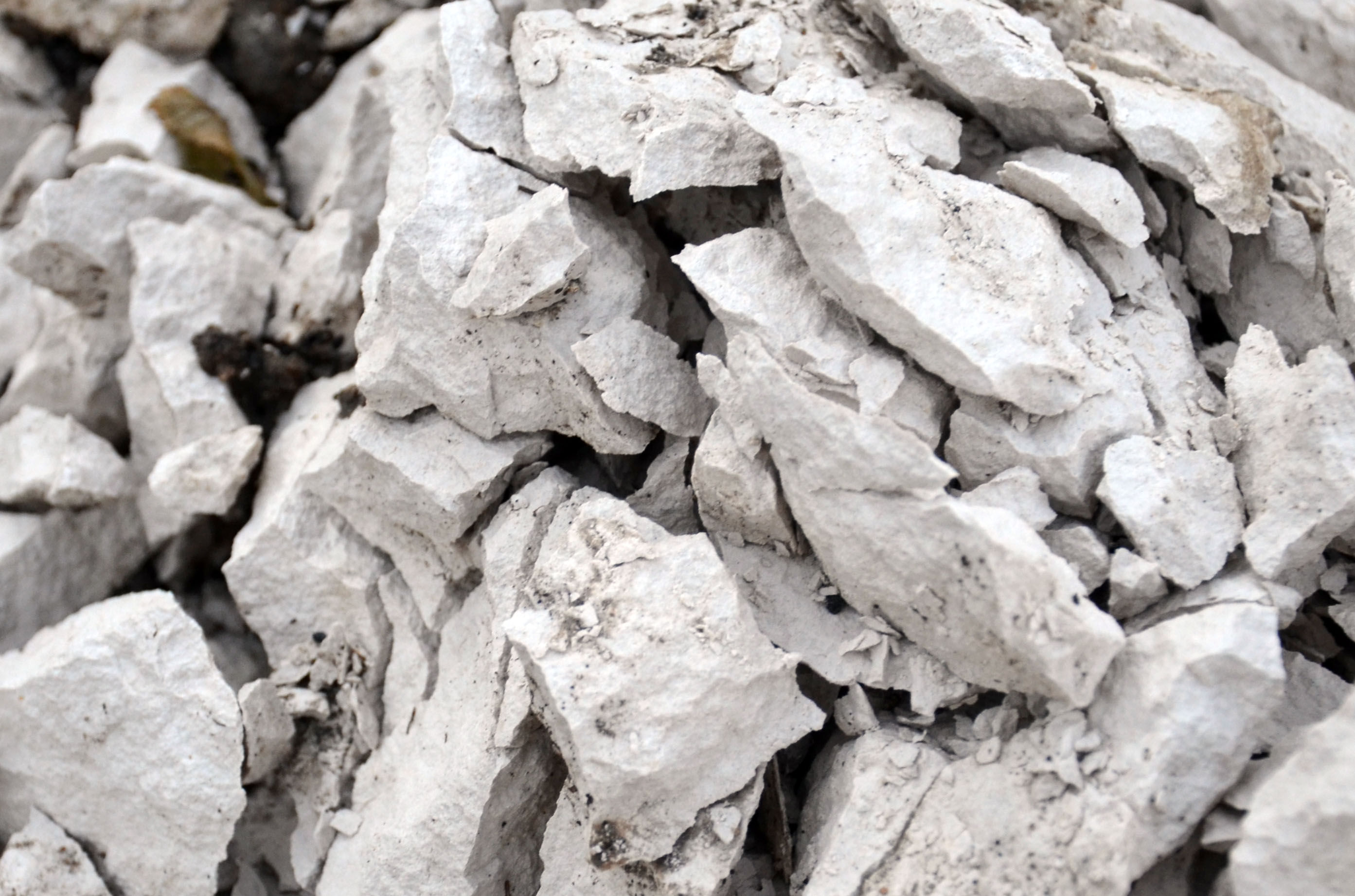 Cryofracture a rubble limestone. It was a rectangular stone that was extracted from the inner part of a fortification built by Vauban (Citadelle Vauban de Lille). This stone, probably taken from a "Catiche" near Lille was exposed to air for a period of freezing. The disintegration occurred in a few days. It is a very accelerated form of cryoclastic Weathering (fragmented rock by hard frost).